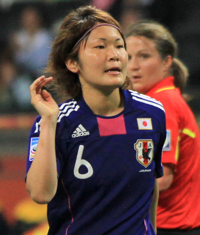 Mizuho Sakaguchi playing for Japan against Sweden in the 2011 FIFA Women's World Cup semi finals